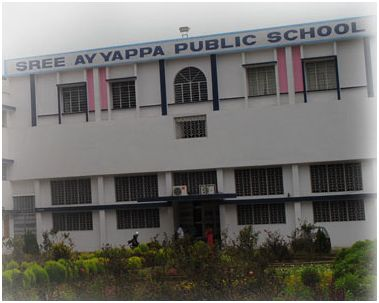 saps school bksc